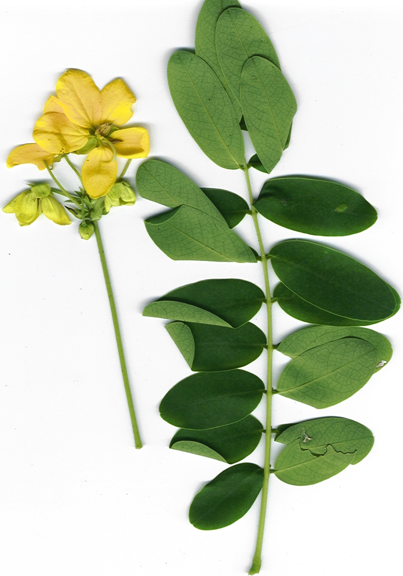 Senna surattensis (leaves and flowers). Location: Maui, Haiku